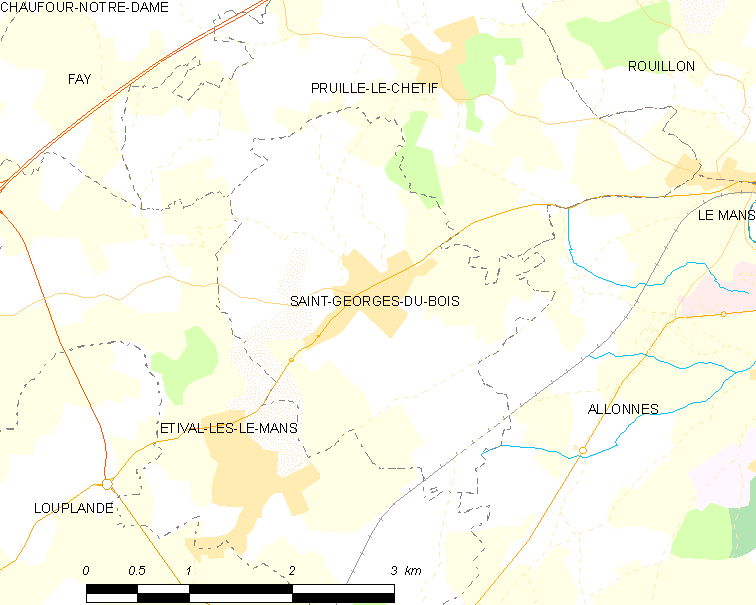 Map of French municipality